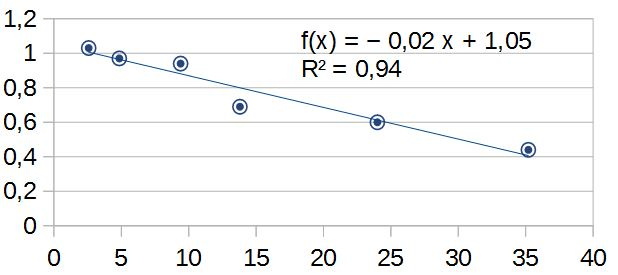 An Eadie-Hofstee diagram for a reaction with urease.